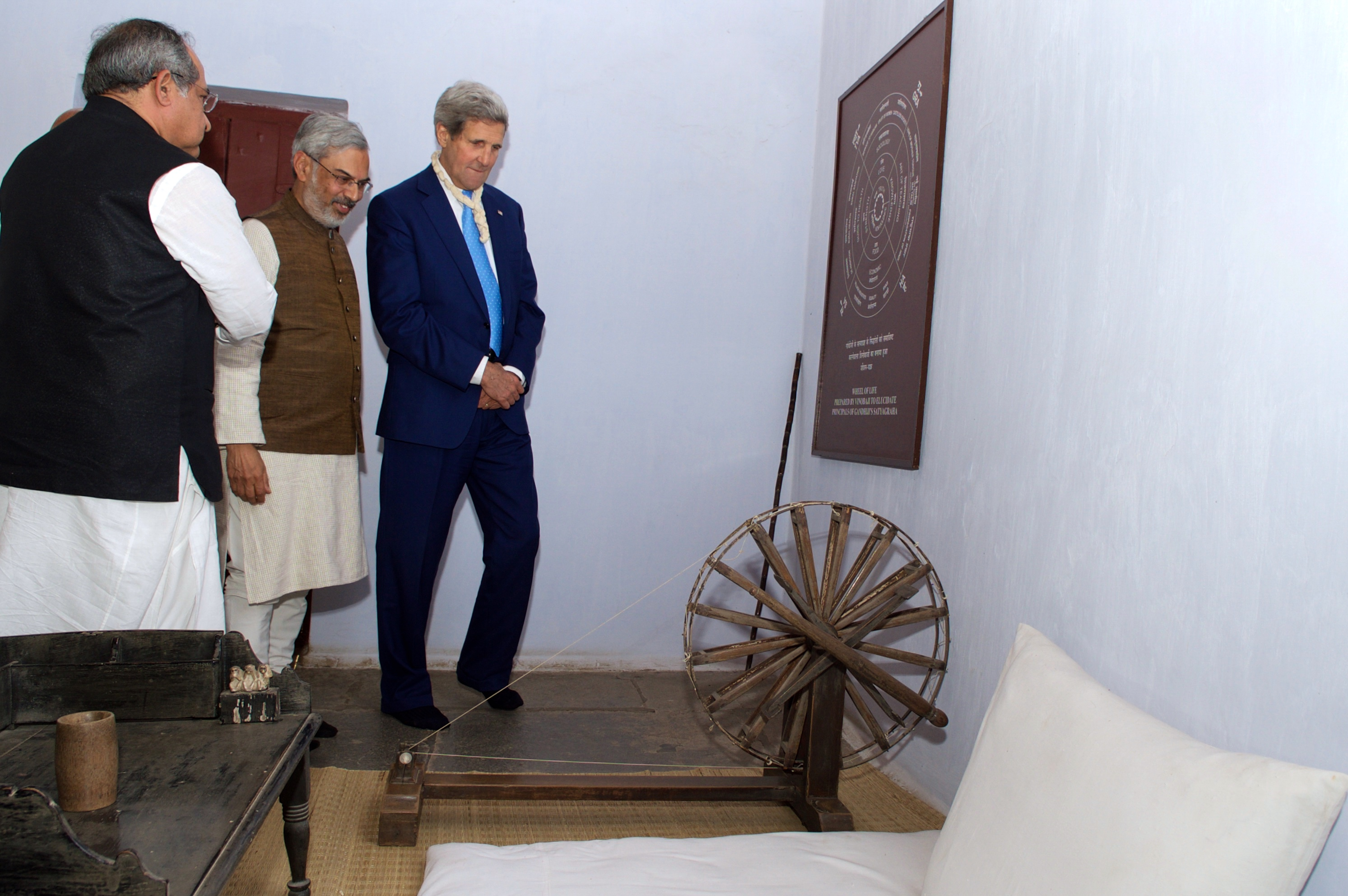 U.S. Secretary of State John Kerry looks the bed, desk, and spinning wheel used by Mohandas Gandhi as he visited his bedroom in the Sabarmati Ashram - where the Mahatma lived and launched his famed Salt March - during a visit to Ahmedabad, India, on January 11, 2014. [State Department photo/ Public Domain]